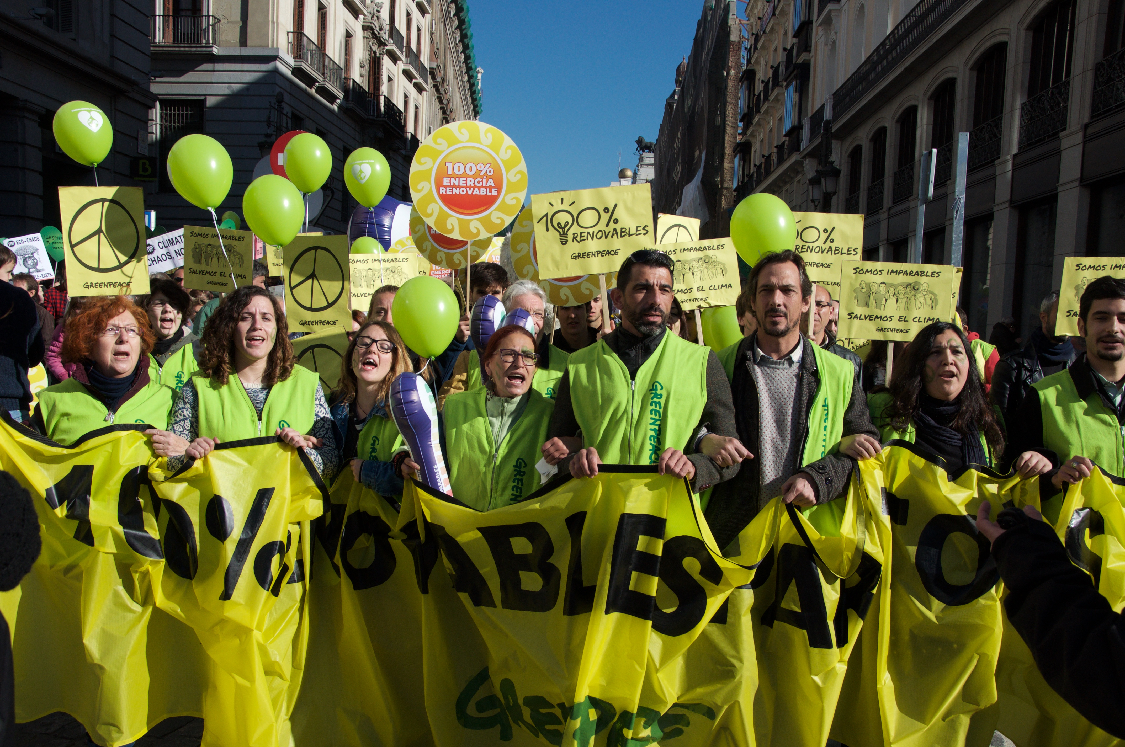 Greenpeace's activists and supporters participate in the Global Climate March, one day before the beginning of UNFCCC Climate Change Conference (COP21) in Paris. November 29th 2015, Madrid.Text on the banner: "100% Renewables" (100 percent energia renovable, 100% renovables) + Renewable-Energy-Paris-Peace-Sign.